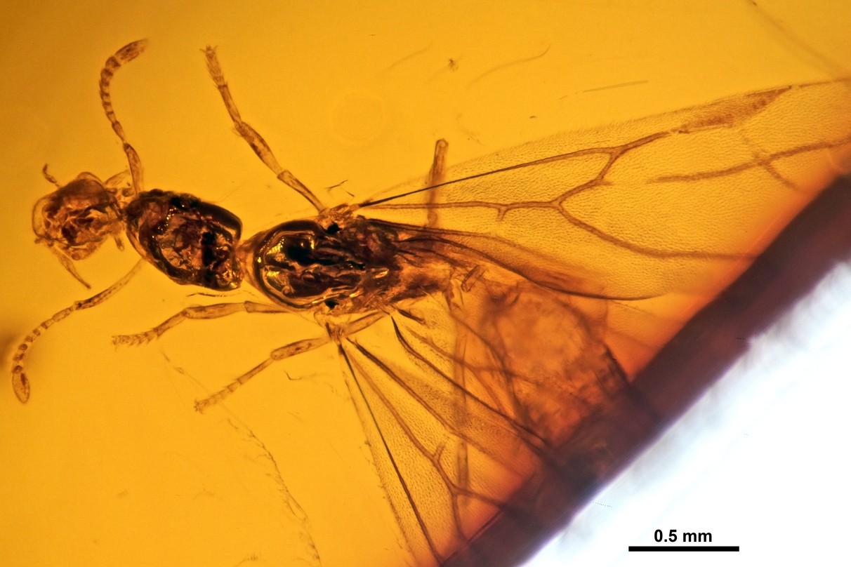 Dorsal view of an Acropyga glaesaria paratype. Specimen SMFBE457B1